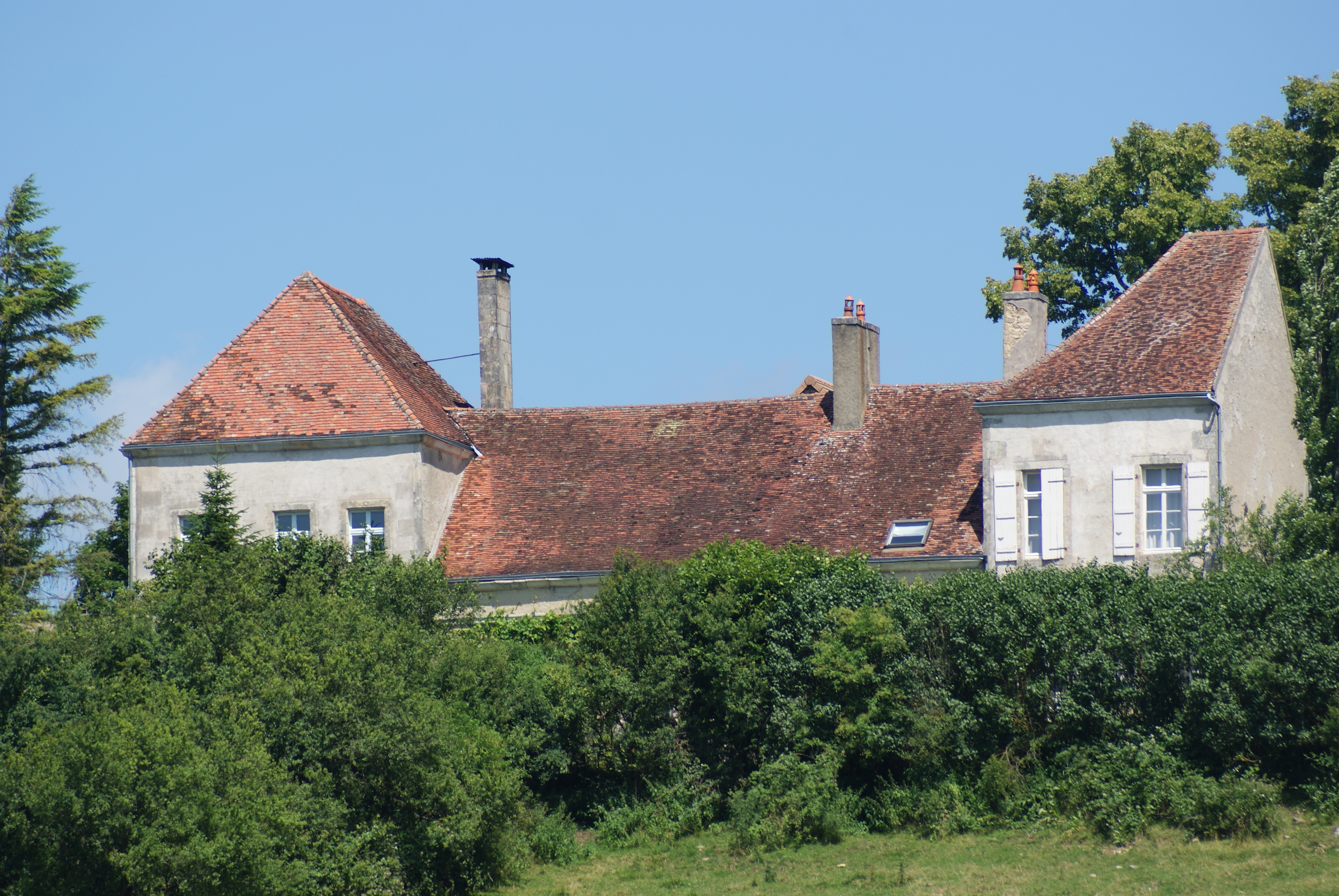 The chateau